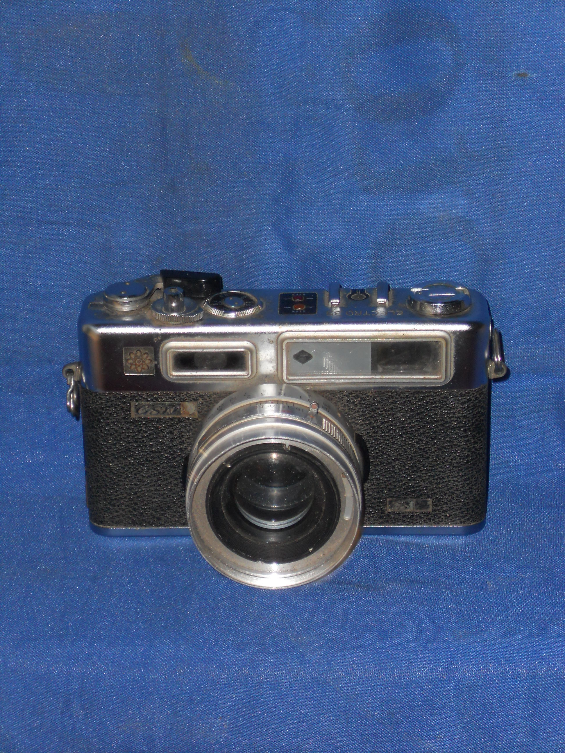 Electro_35_camera